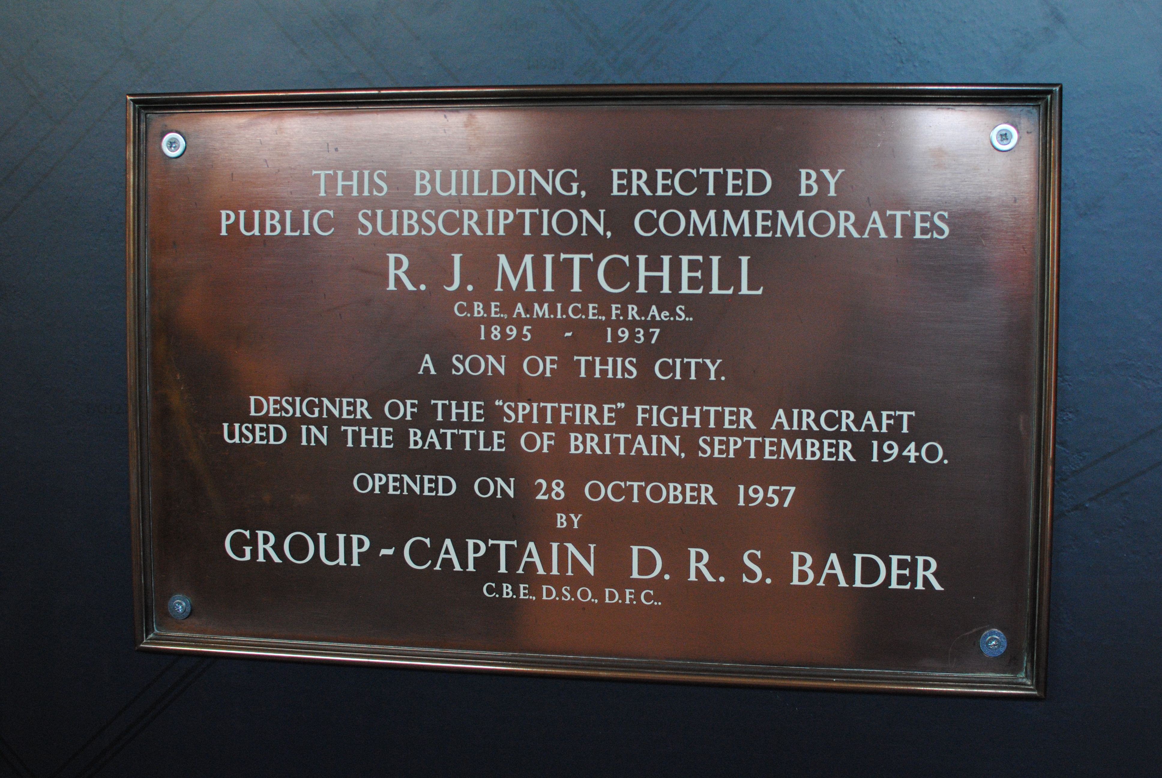 Mitchell Arts Centre, Stoke-on-Trent, England. Plaque marking unveiling by Douglas Bader. THIS BUILDING, ERECTED BY PUBLIC SUBSCRIPTION, COMMEMORATES R. J. MITCHELL C.B.E., A.M.I.C.E., F.R.Ae.S.. 1895 - 1937 A SON OF THIS CITY. DESIGNER OF THE "SPITFIRE" FIGHTER AIRCRAFT USED IN THE BATTLE OF BRITAIN, SEPTEMBER 1940. OPENED ON 28 OCTOBER 1957 BY GROUP-CAPTAIN D.R.S. BADER C.B.E., D.S.O, D.F.C..